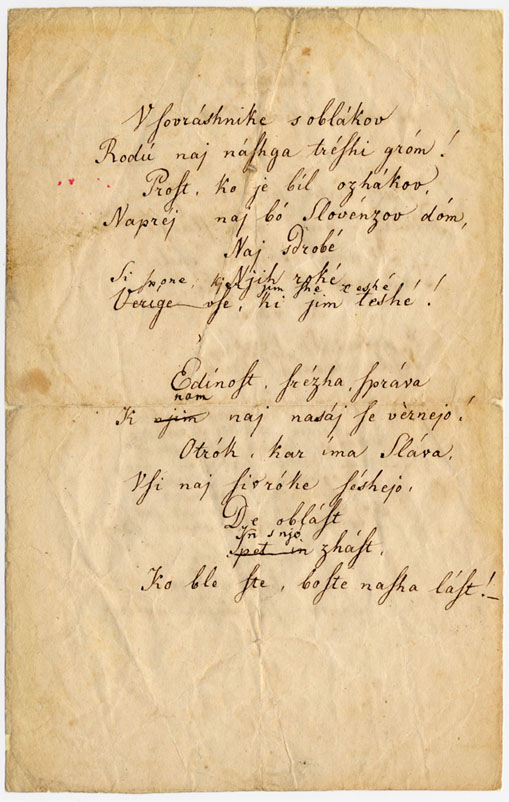 Tha Manuscript of Zdravica by France Prešeren; manuscript number 3, paper 2 of 4.